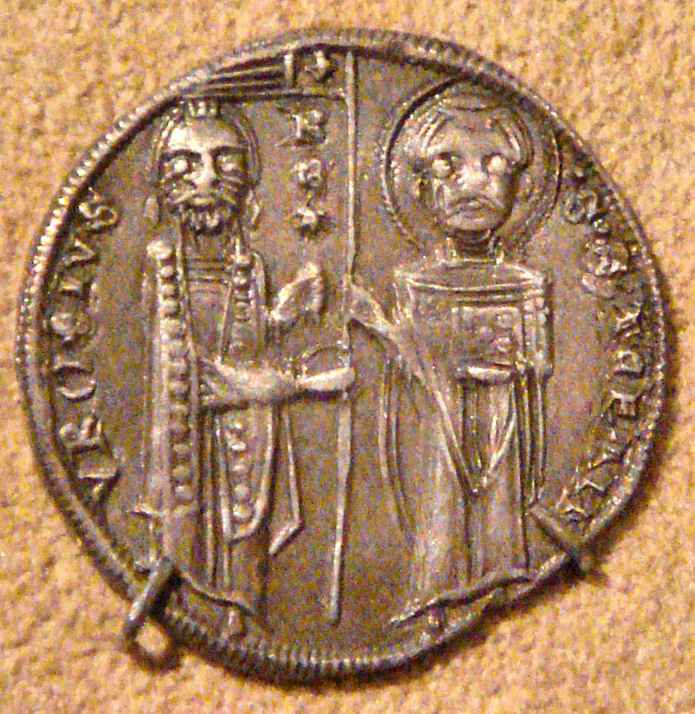 Silver coin (dinar) of Serbian King Stefan Uroš I (r. 1241-1272)